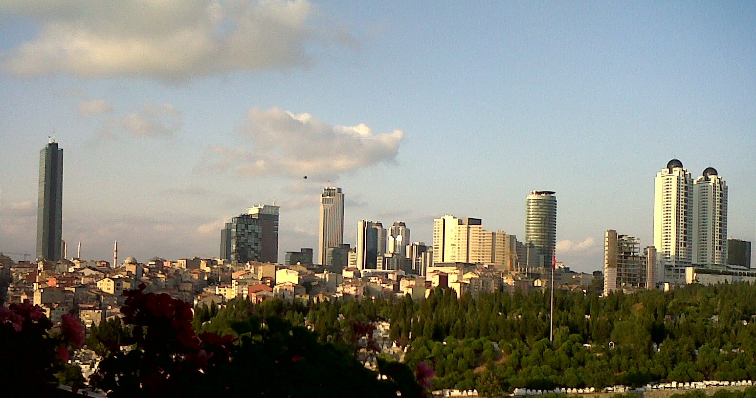 Gültepe Plazalar